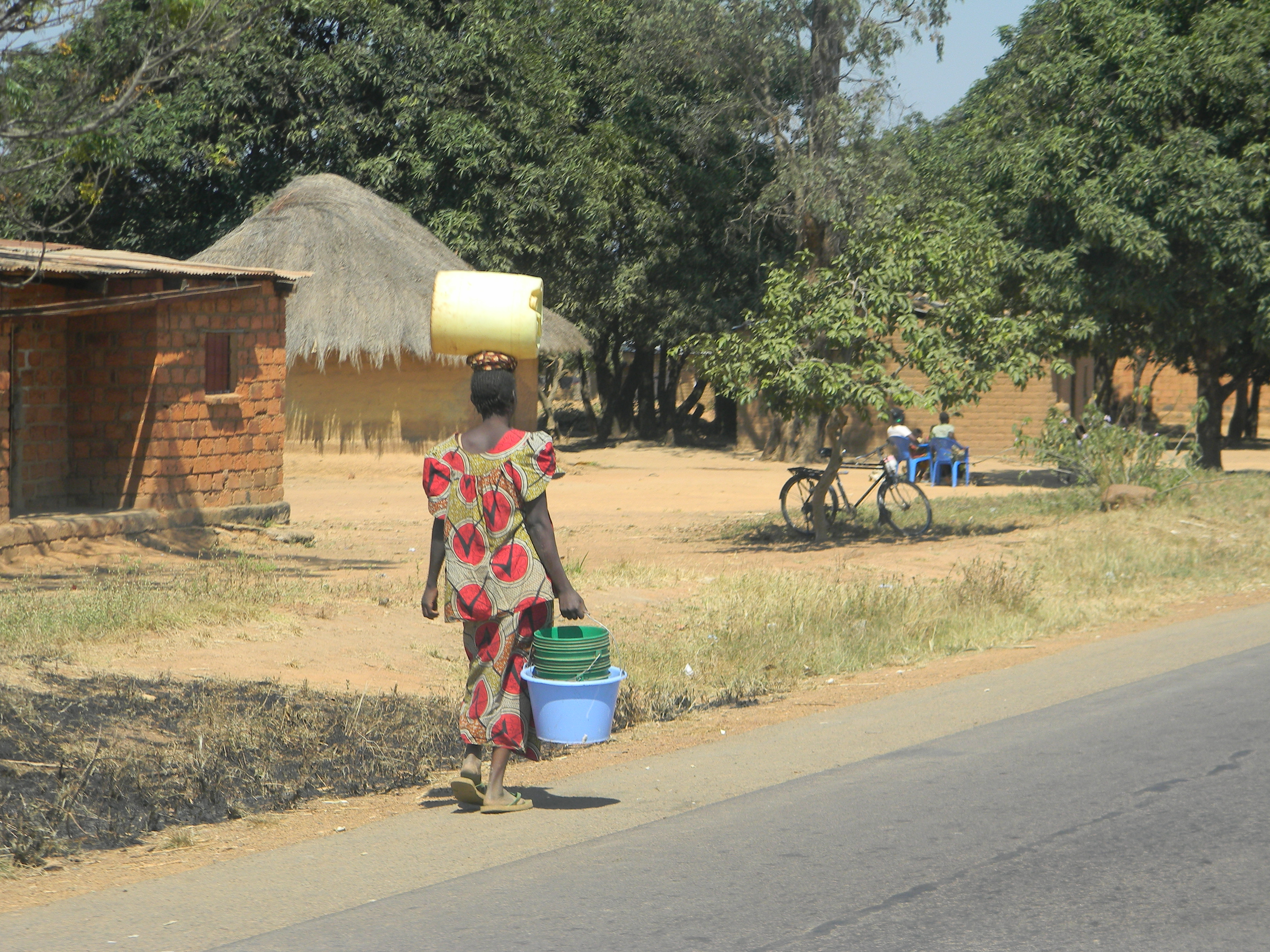 This is an image with the theme "Africa on the Move or Transport" from: Democratic Republic of the Congo